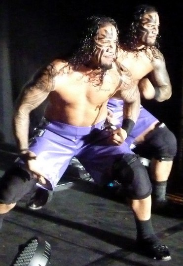 The Usos making their entrance on November 16, 2013, at a WWE event in Minehead.